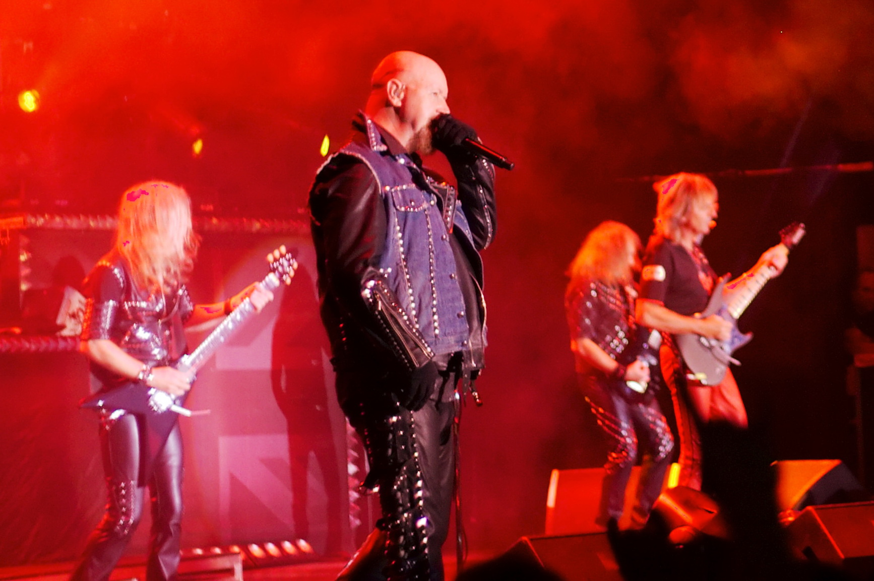 Judas Priest in concert for Summerfest, in Milwaukee, Wisconsin